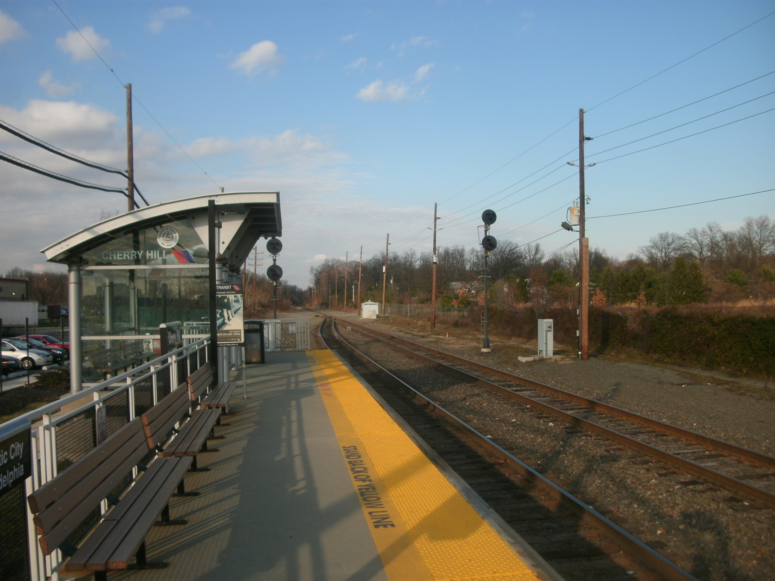 Cherry Hill station in December 2011